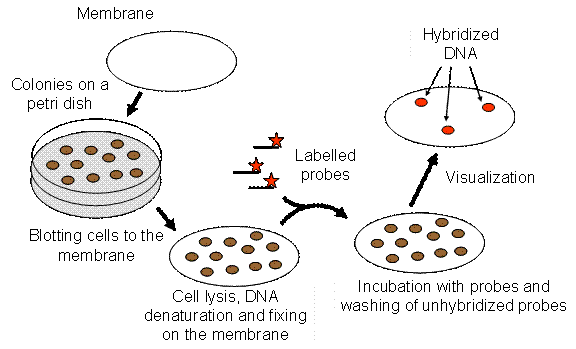 Hybridization is applied to the nucleic acid released from microbial colonies and labelled with a probe for detection by methods such as ultraviolet light or autoradiography. This is great for screening clones.